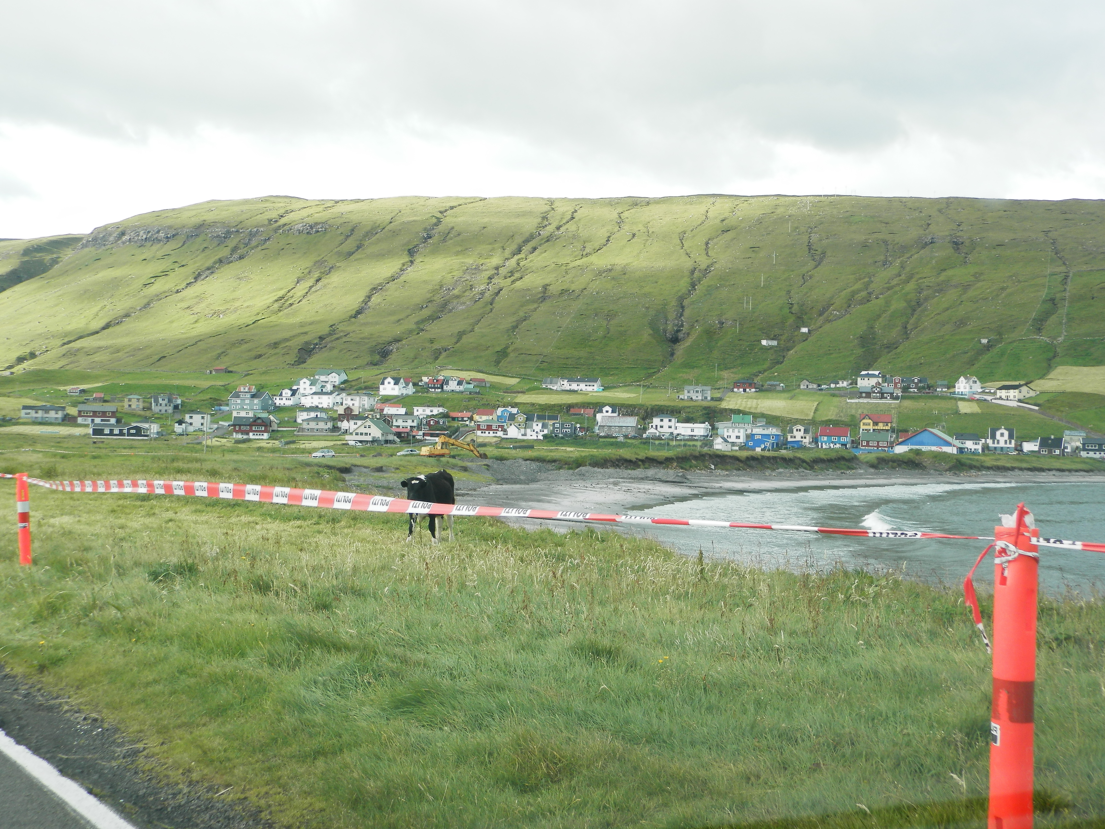 Hvalba, Faroe Islands on 12 August 2014.